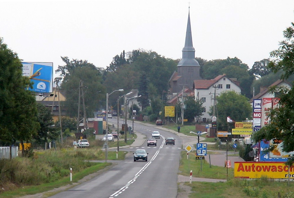 Mierzyn - a village in Poland. Licensing: I'm the author of photo.